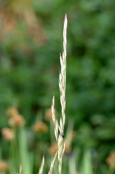 Picture taken in Commanster, Belgian High Ardennes . Species: Festuca rubra